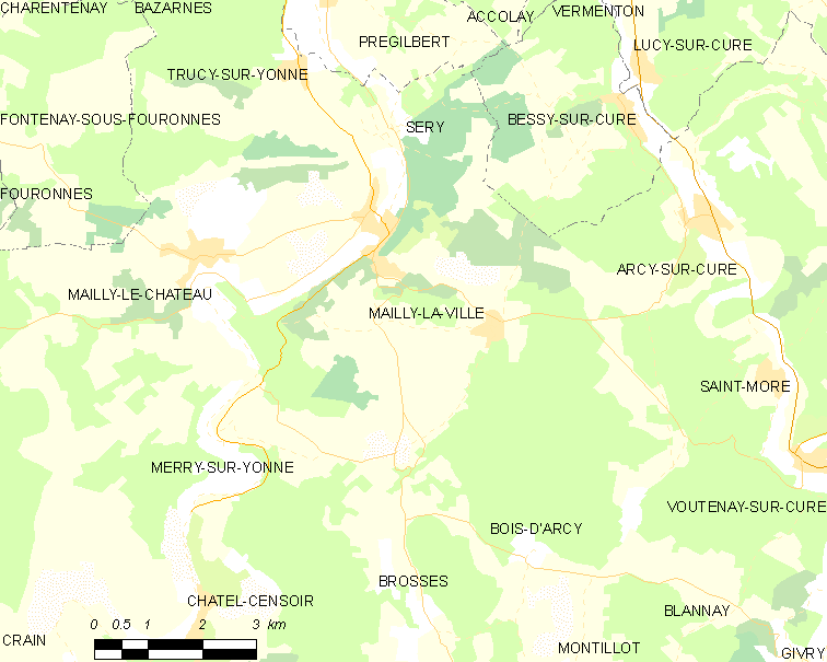 Map of French municipality Mailly-la-Ville